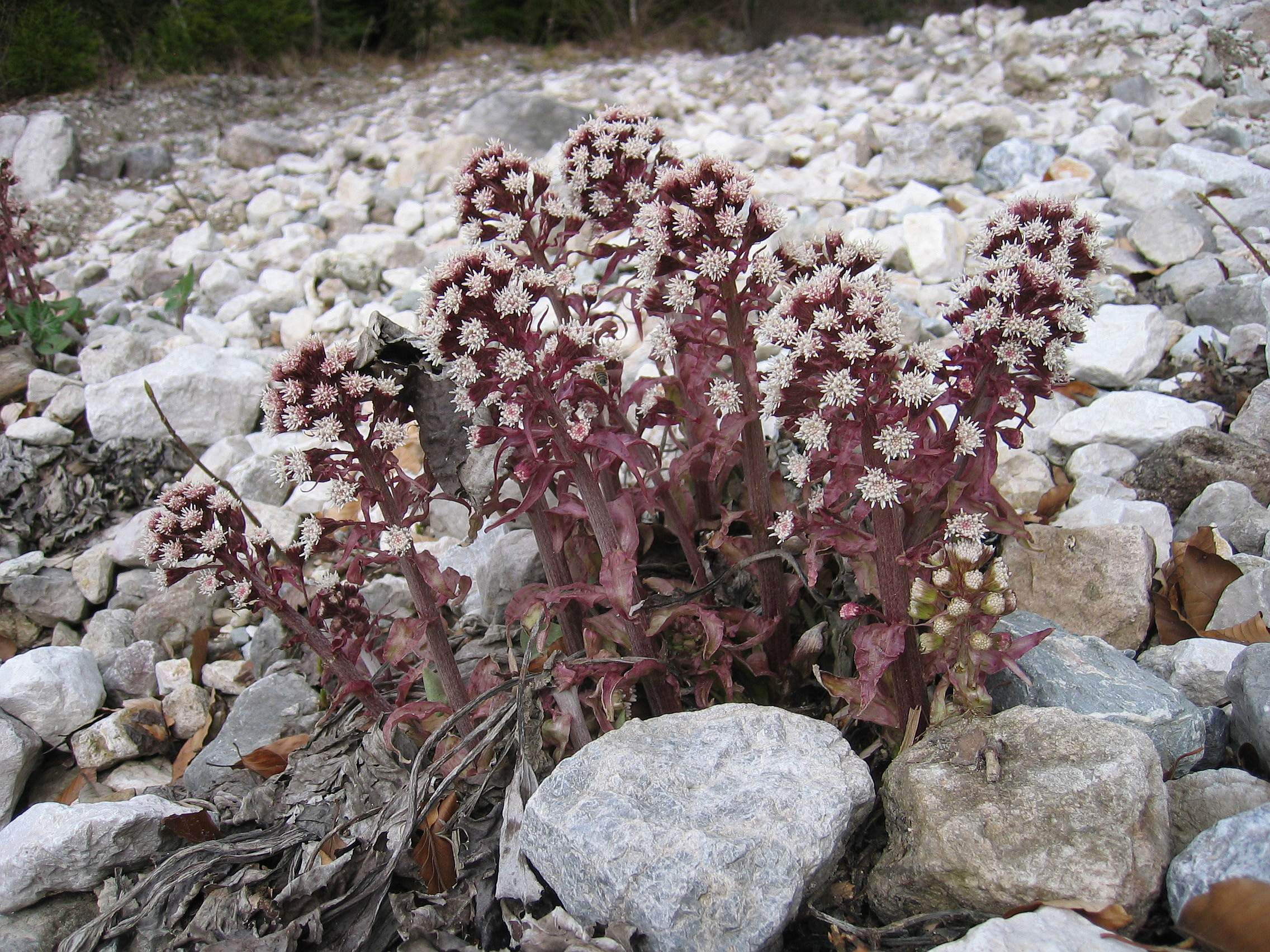 Petasites paradoxus Habitat: Traunsee, Upperaustria, Austria